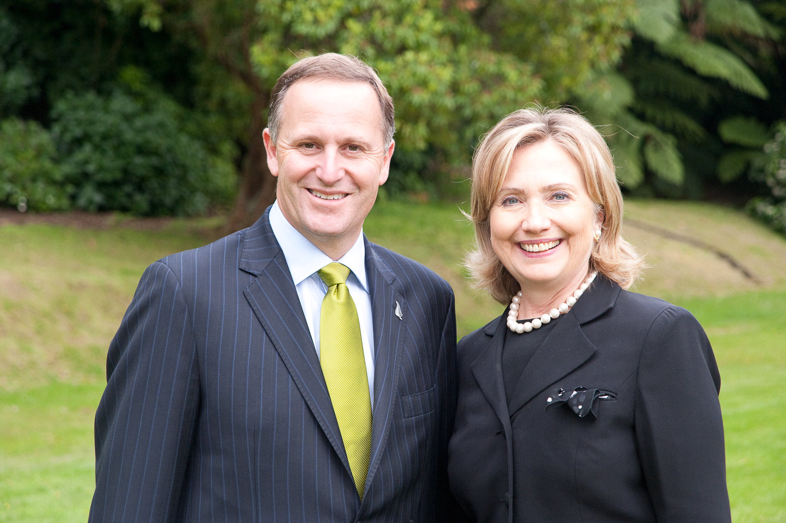 U.S. Secretary of State Hillary Rodham Clinton poses for a photo with New Zealand Prime Minister John Key in Wellington, New Zealand, on November 4, 2010. [State Department photo/ Public Domain]